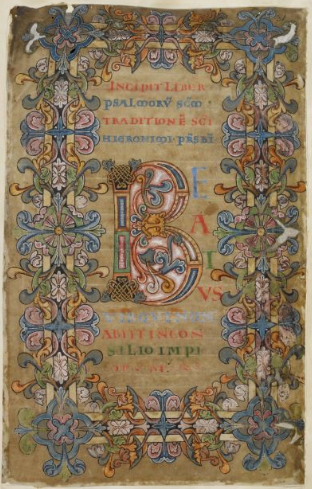 British Library: Cotton MS Tiberius C VI Date: 3rd quarter of the 11th century-2nd half of the 12th century Psalter (“Tiberius Psalter”, imperfect), preceded by computistical texts and tables (2r–7r) and a miniature-cycle of scenes from the Old and New Testaments (7v–16r) Language(s): Latin and Old English; Old English gloss (31v–129v); Anglo-Norman French (114r)Dated: 3rd quarter of the 11th century; 2nd half of the 12th century (114r)